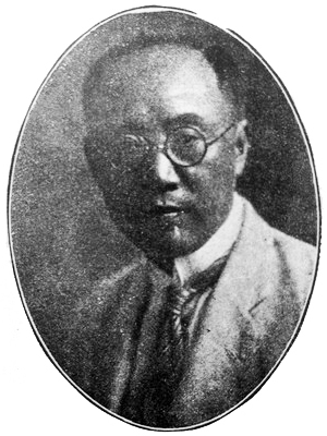 Wang Rongbao (1878－1933)